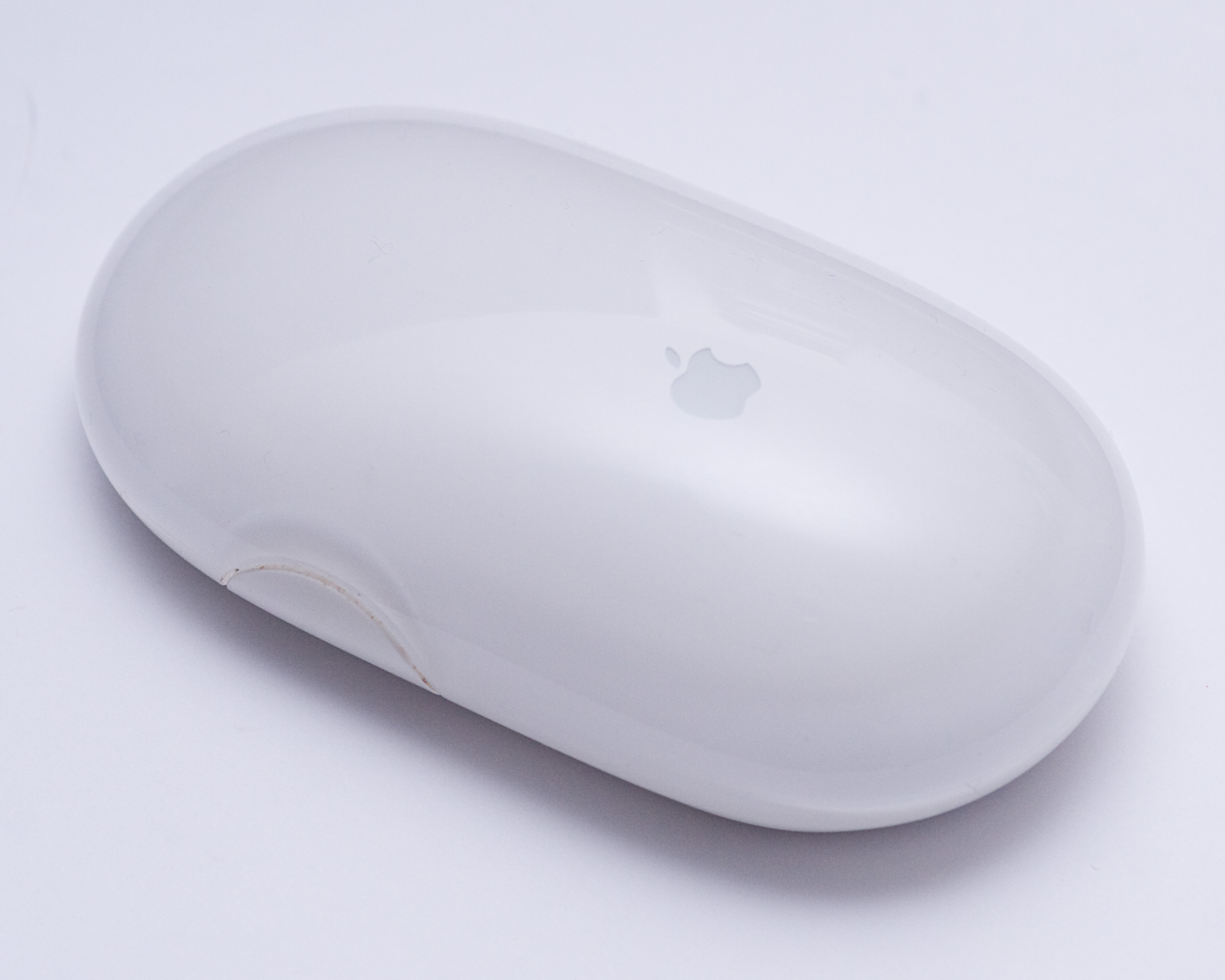 Apple Wireless Mouse